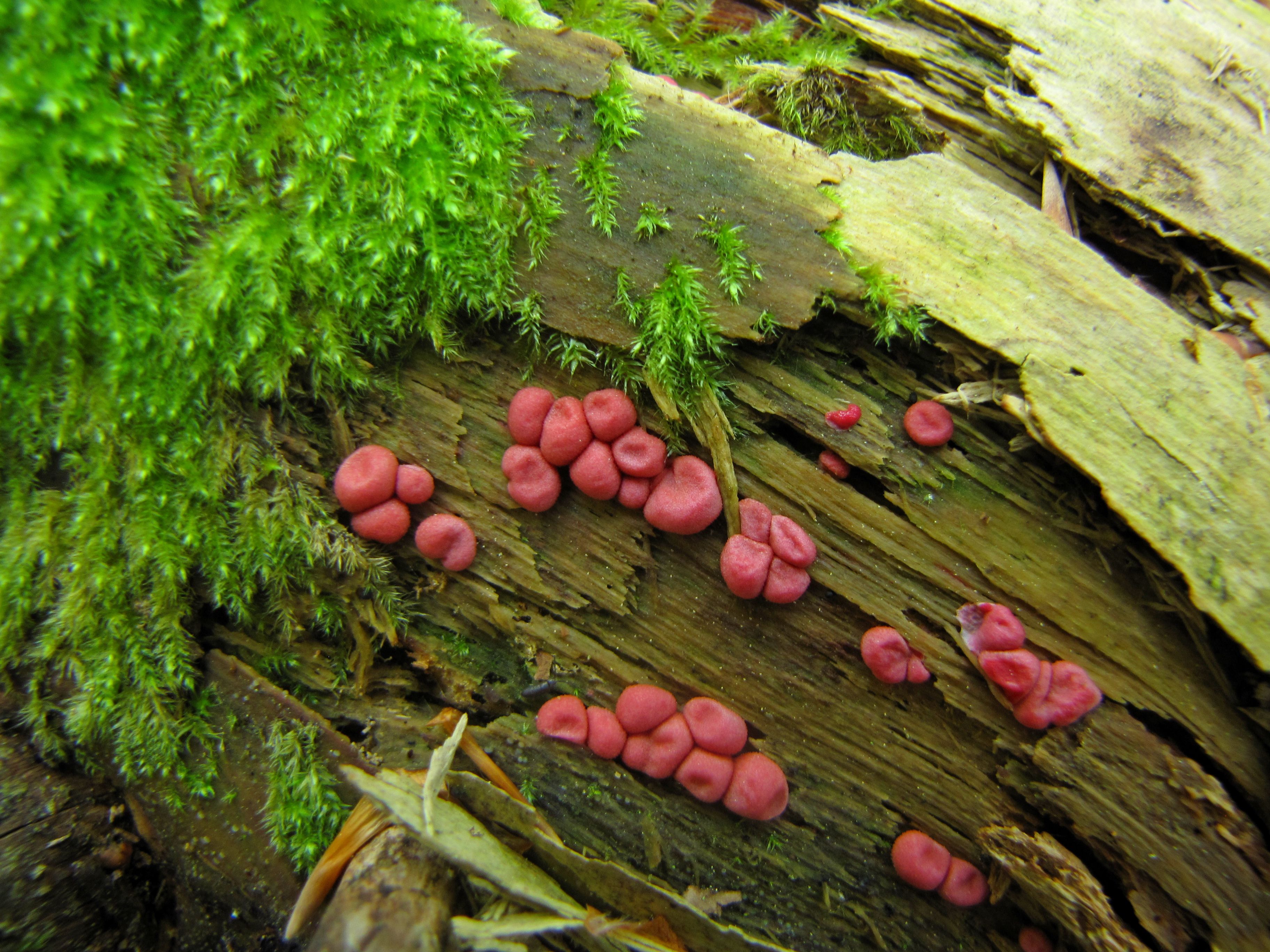 Wolf's Milk